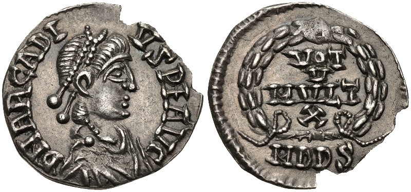 Arcadius. AD 383-408. AR Siliqua (16mm, 0.88 g, 6h). Mediolanum (Milan) mint, 2nd officina. Struck AD 383-387. Pearl-diademed, draped, and cuirassed bust right VOT/V/MVLT/X in four lines; all within wreath; MDDS (mint mark). RIC IX 13; RSC 27B. Good VF, toned, slightly irregular flan. From the White Mountain Collection.